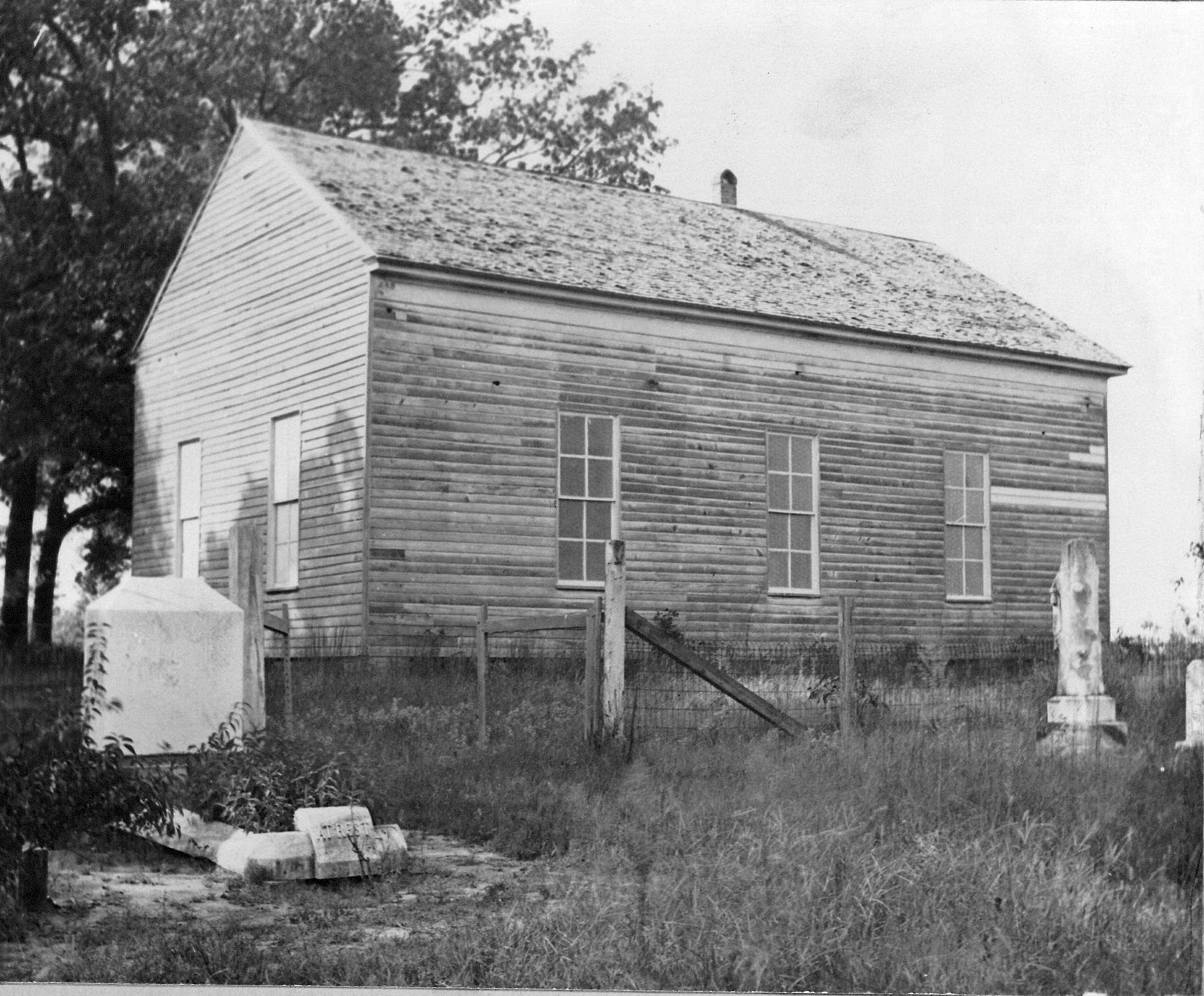 Franklin Church, Franklin, Mississippi. The church was erected in 1841 using slave labor.